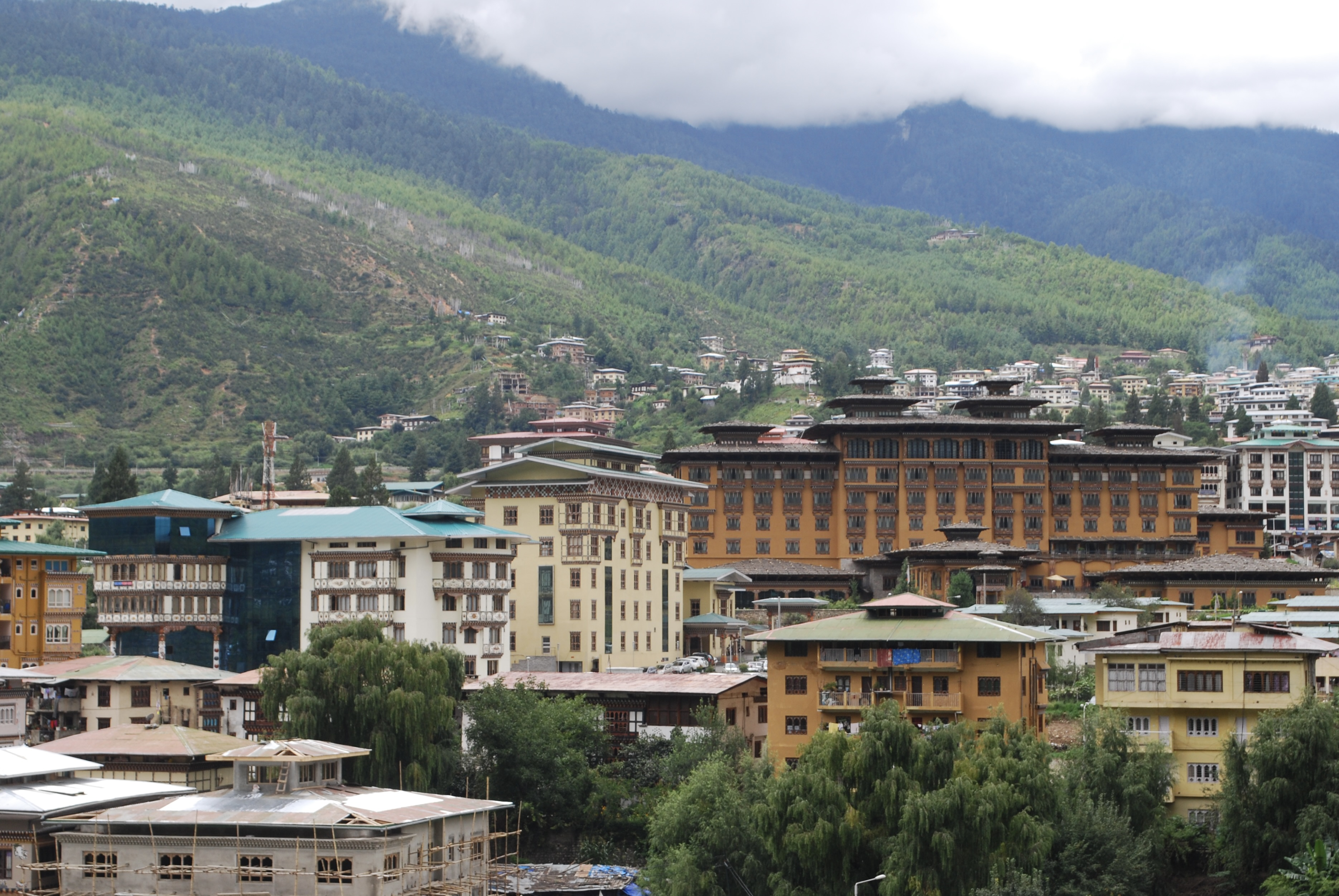 Thimpu Bazar, Bhutan